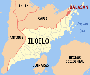 Map of Iloilo showing the location of Balasan